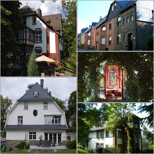 Monument protected district Rudolfstrasse / Hansastrasse - from historicism to modernism